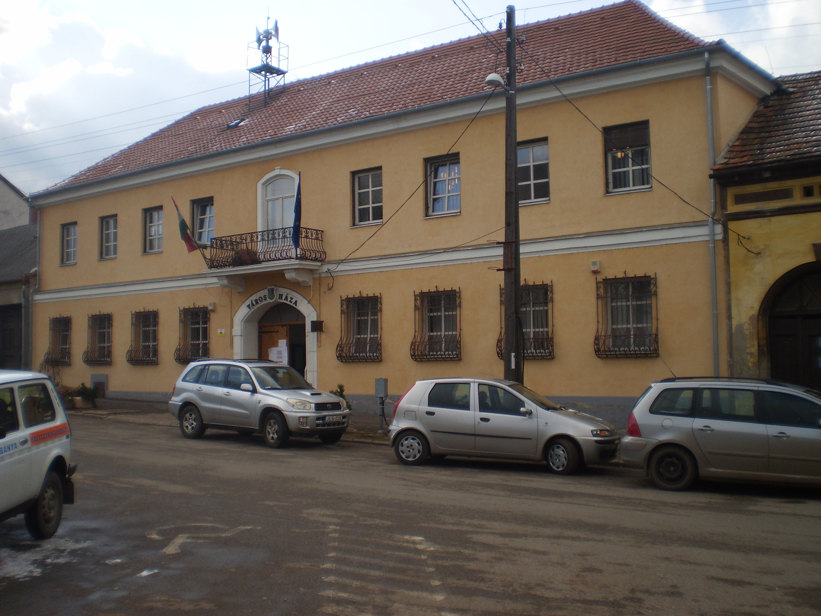 Devecser, Hungary. Town hall